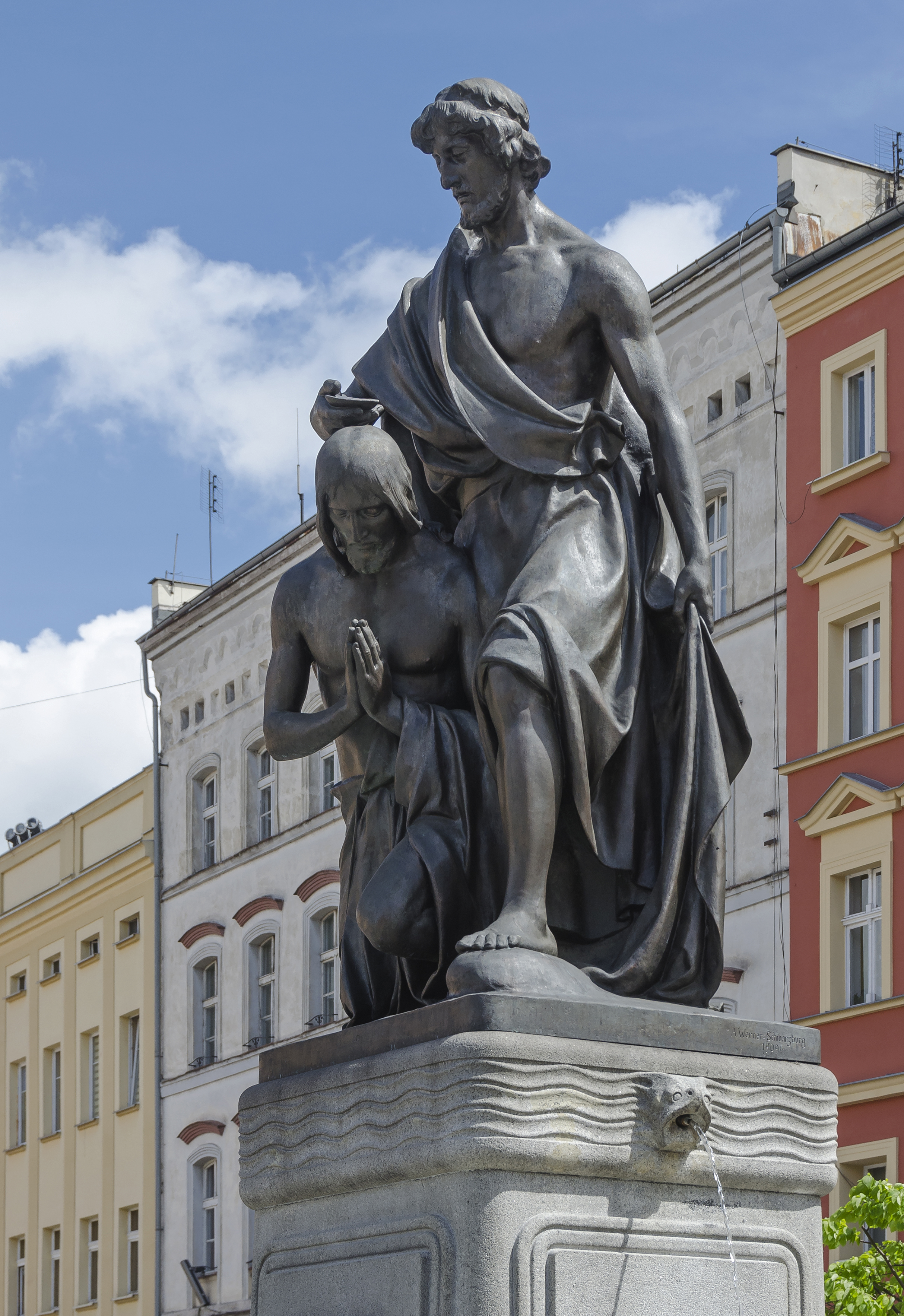 Fountain in Nowa Ruda, statue of Jesus and John the Baptist